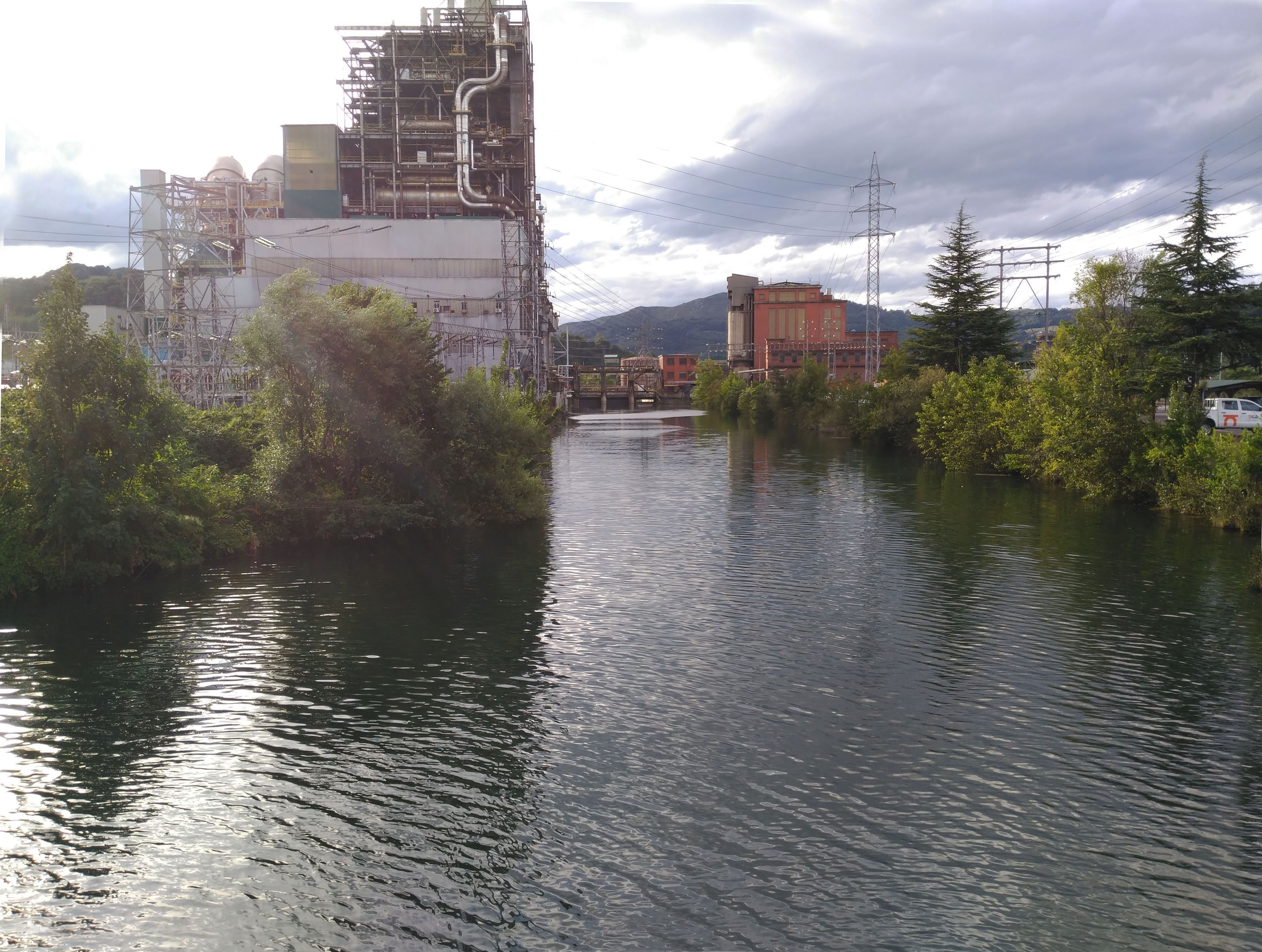 Nalón river canal in Langreo, Spain